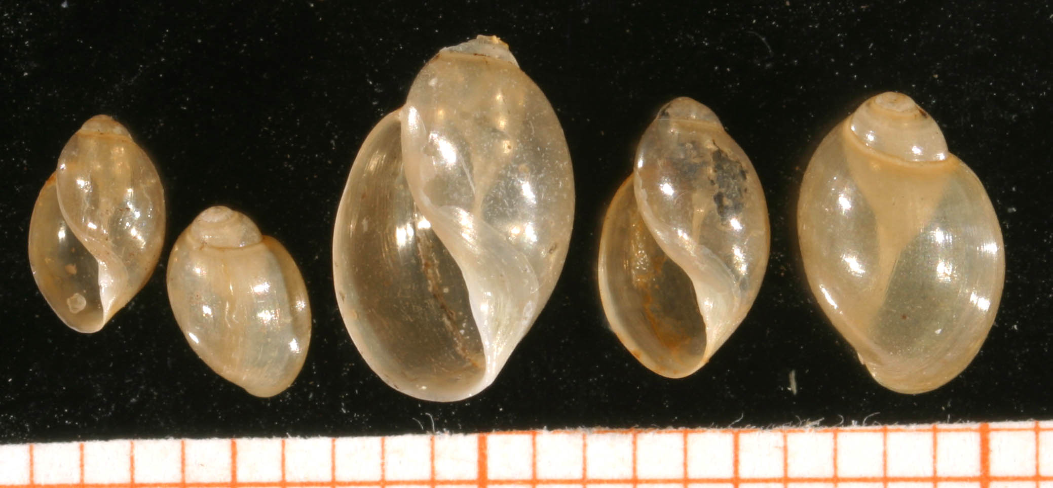 Photo of shells of Physa fontinalis. Scale in mm. Locality: Germany: Schleswig-Holstein, Hagener Au near Neu-Stein. Date: 04-1954.